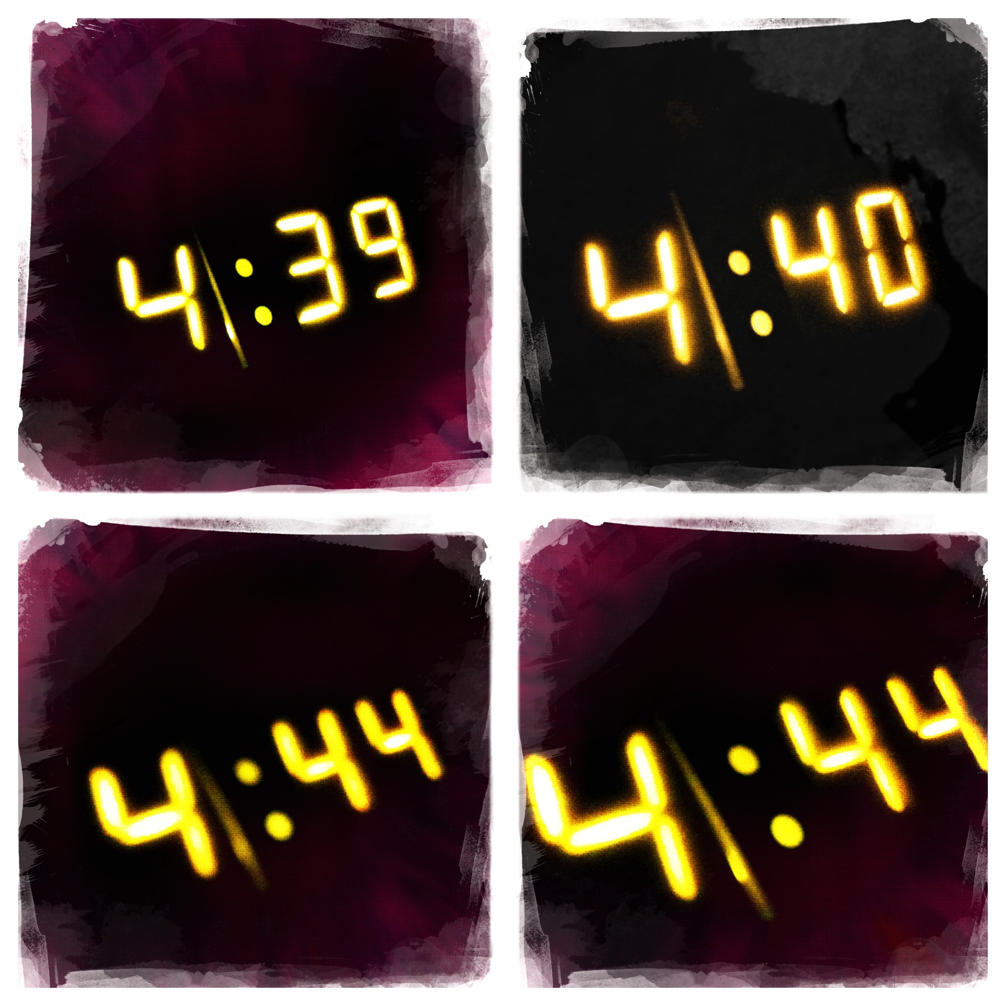 insomnia